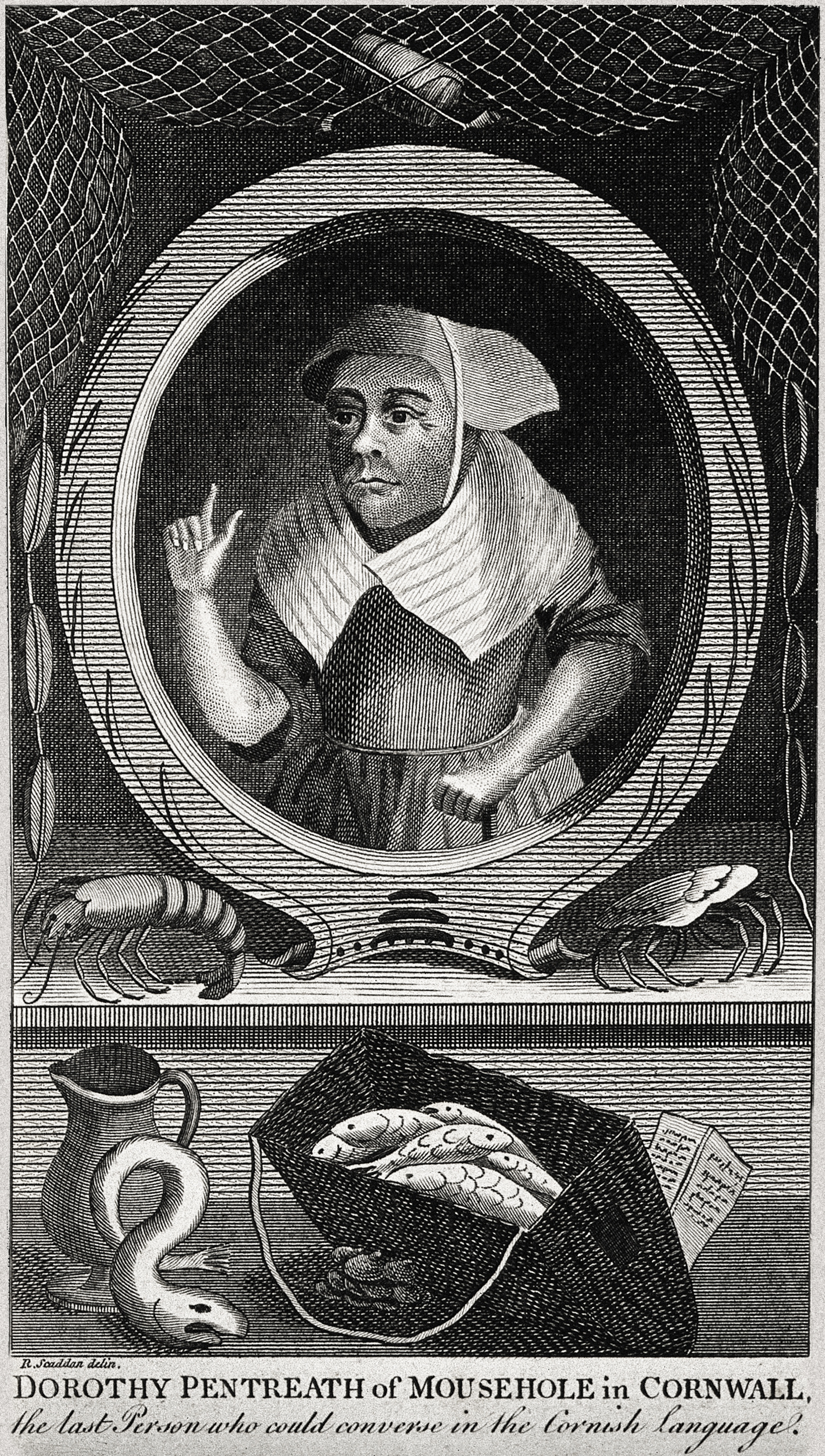 Engraved portrait of Dorothy Pentreath, otherwise Dolly Pentreath, of Paul near Mousehole, Cornwall (c. 1692-1777)